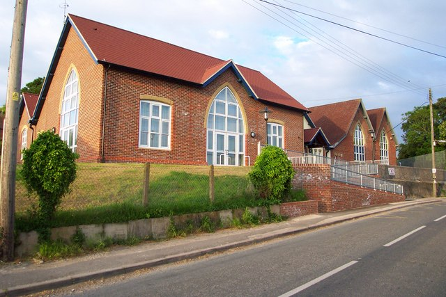 Sixpenny Handley First School The photo shows the 2004 extension. The two large windows on the right are part of the original building.